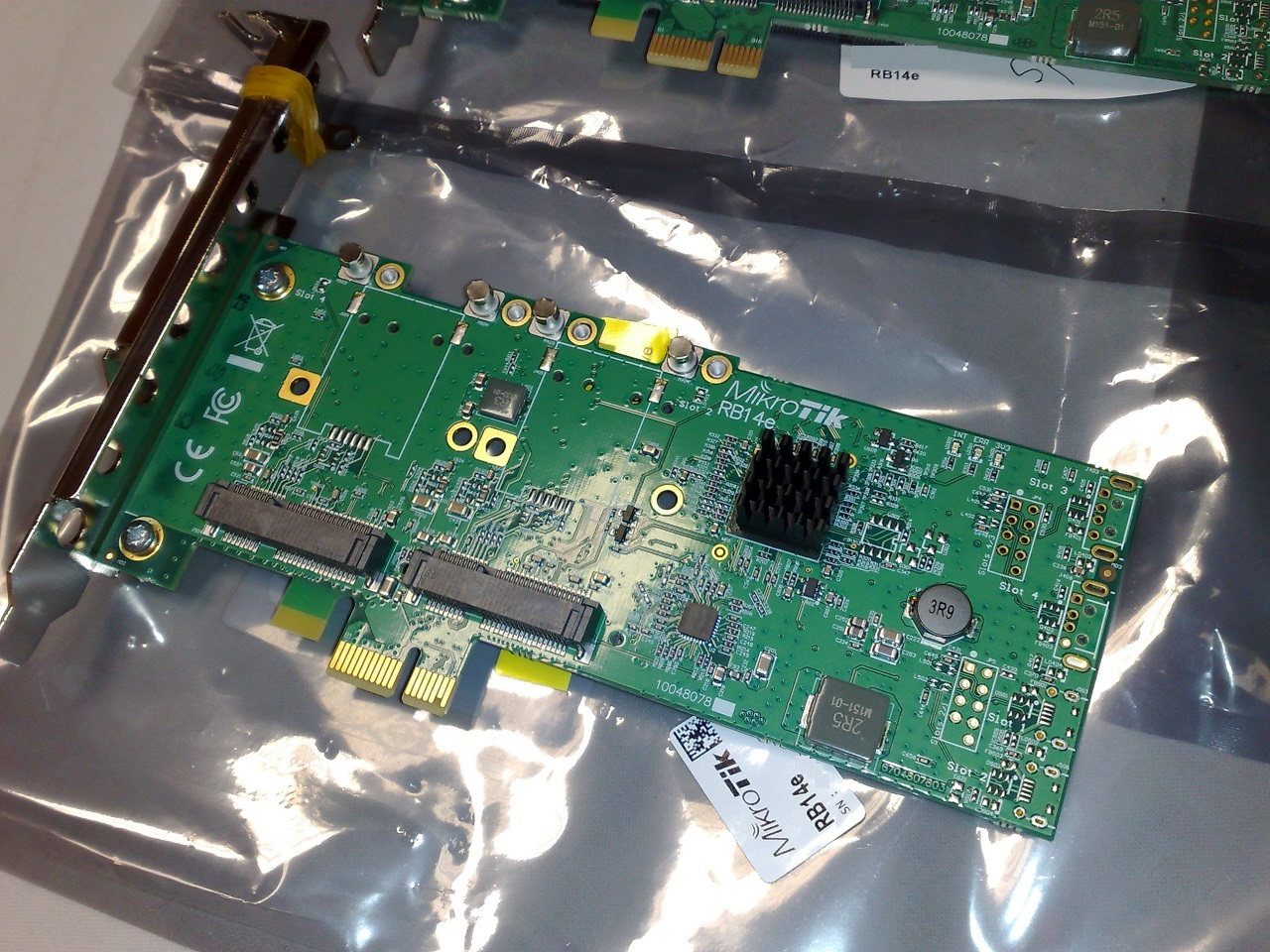 Top view of a RouterBOARD RB14e, a PCI Express ×1 card; it contains a PLX Technology PEX8606 PCI Express switch (covered by a small heat sink) that makes it possible to use up to four PCI Express Mini Cards in a single slot, sharing the same PCI Express endpoint